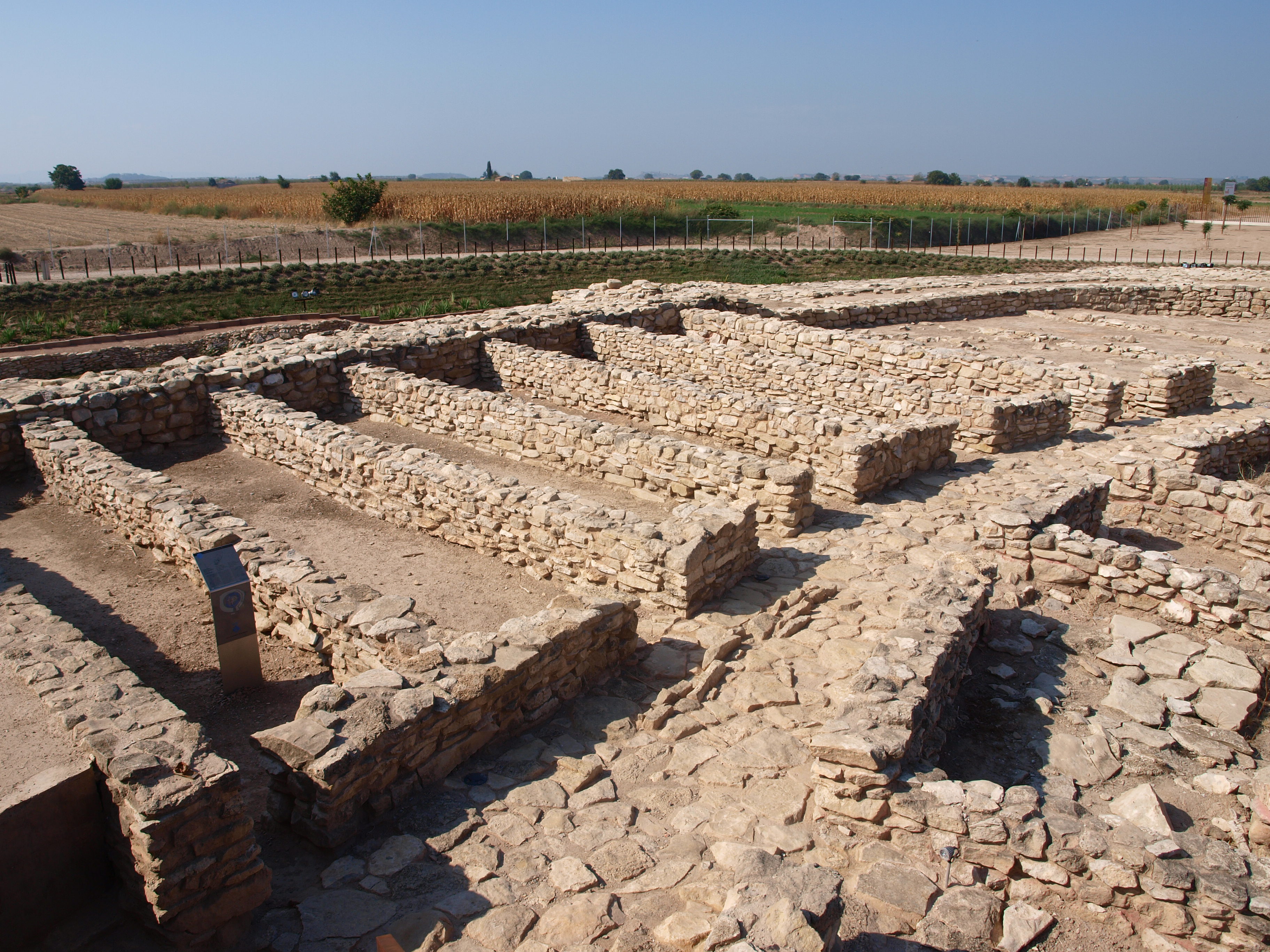 "Els Vilars" Iberian site — southwestern view